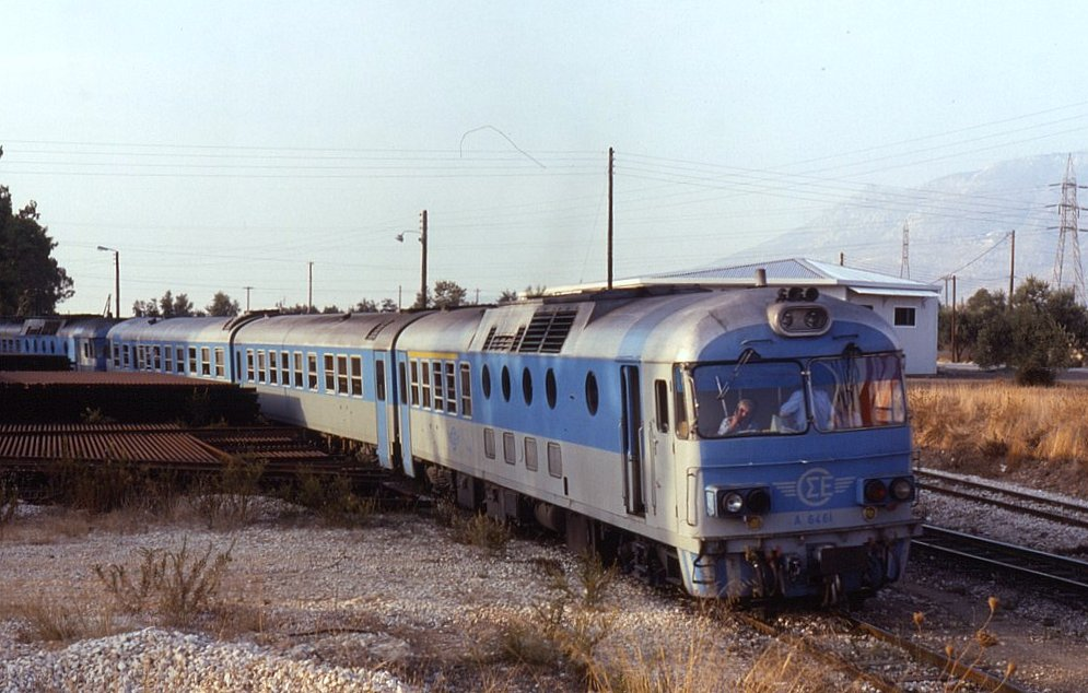 Seen at Isthmós on 3 November 1992, closest to the camera is Ganz Mavag DMU set A.6461 with A.6464 in the background. Train 429, 10:35 Kalamata to Pireas. Isthmós (or sometimes spelt Isthmus or Isthmia) close to the Corinth canal is a short distance to a road bridge which gives good views of a parallel rail bridge.